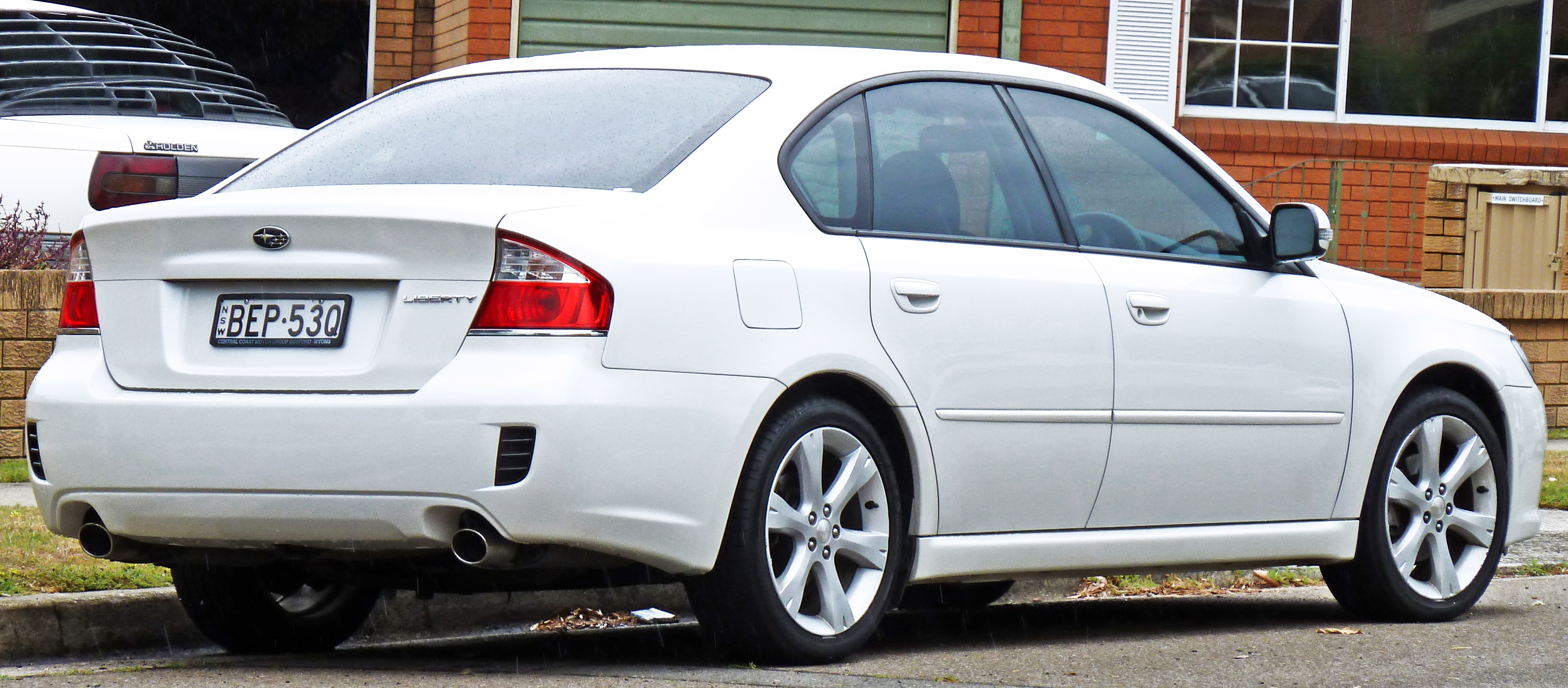 2007 Subaru Liberty (BL9 MY08) 2.5i sedan. Photographed in Sans Souci, New South Wales, Australia.